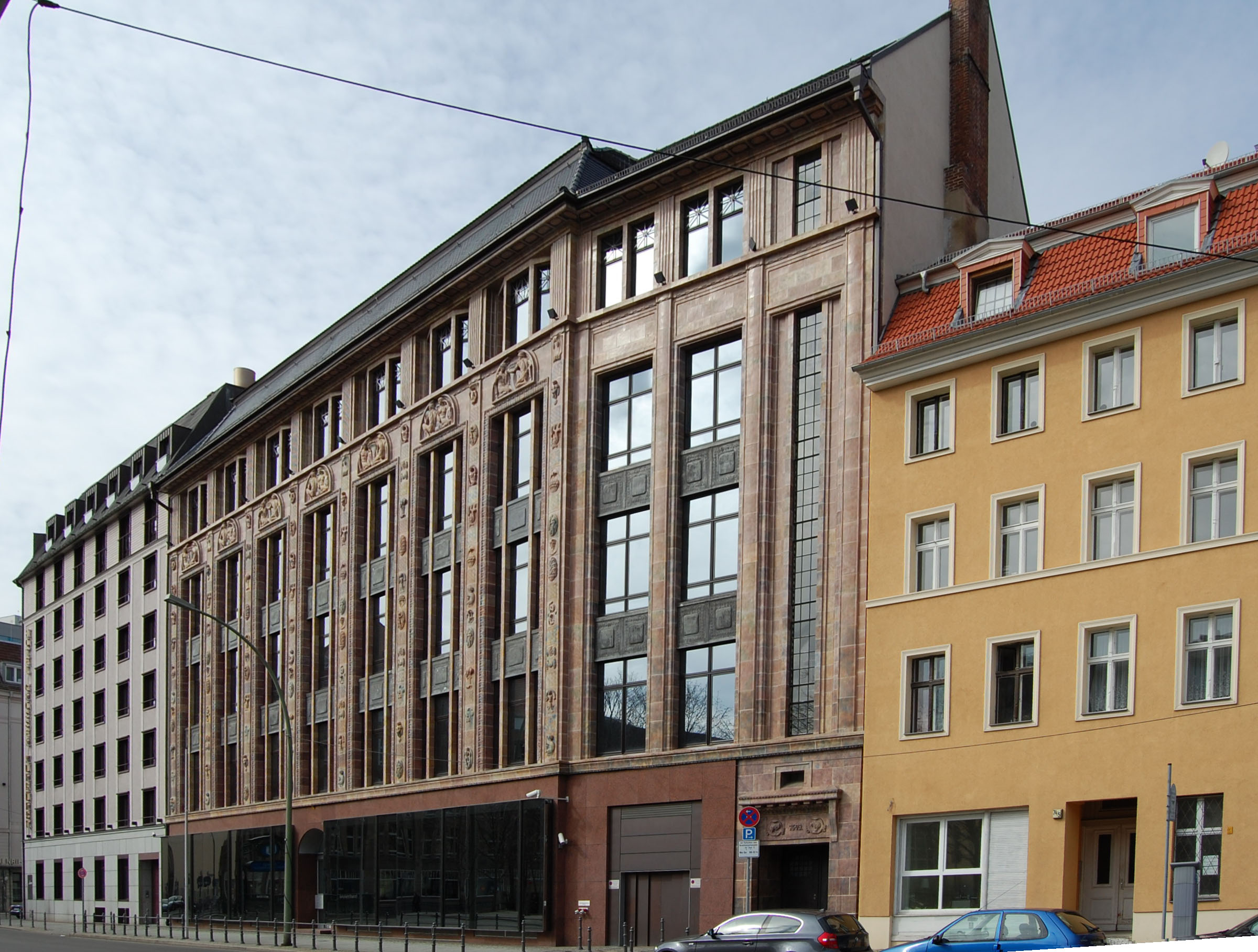 Embassy of Australia in Berlin